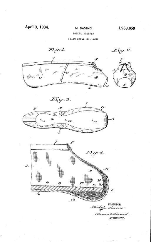 Ballet Slipper Drawing - Patent 1,953659 (April 3, 1934) M. Savino